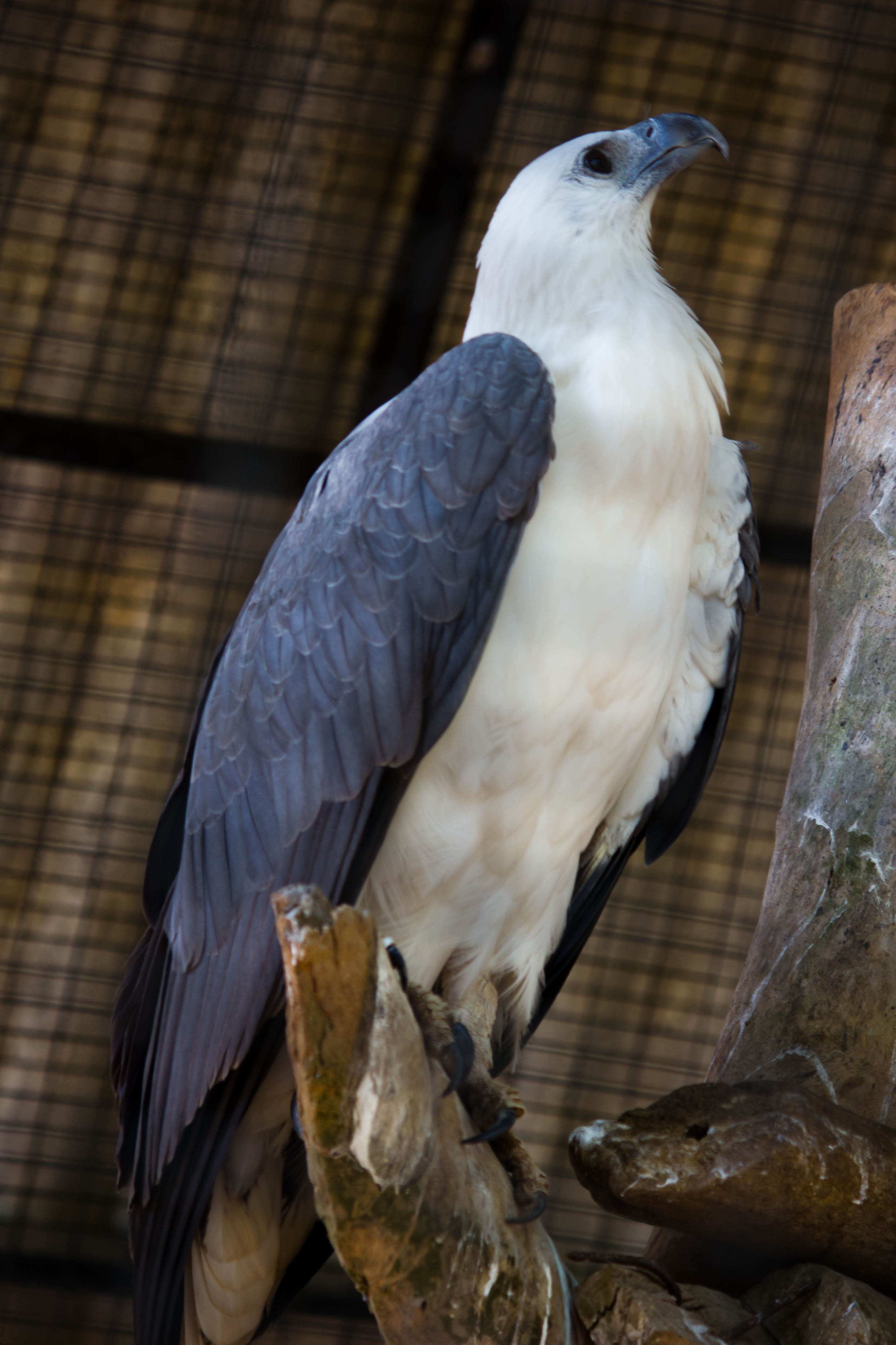 White-bellied Sea Eagle at Arignar Anna Zoological Park, Vandalur, India.